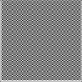 2d interpretation of the Morse-Thue sequence. Image was get with use of Matlab